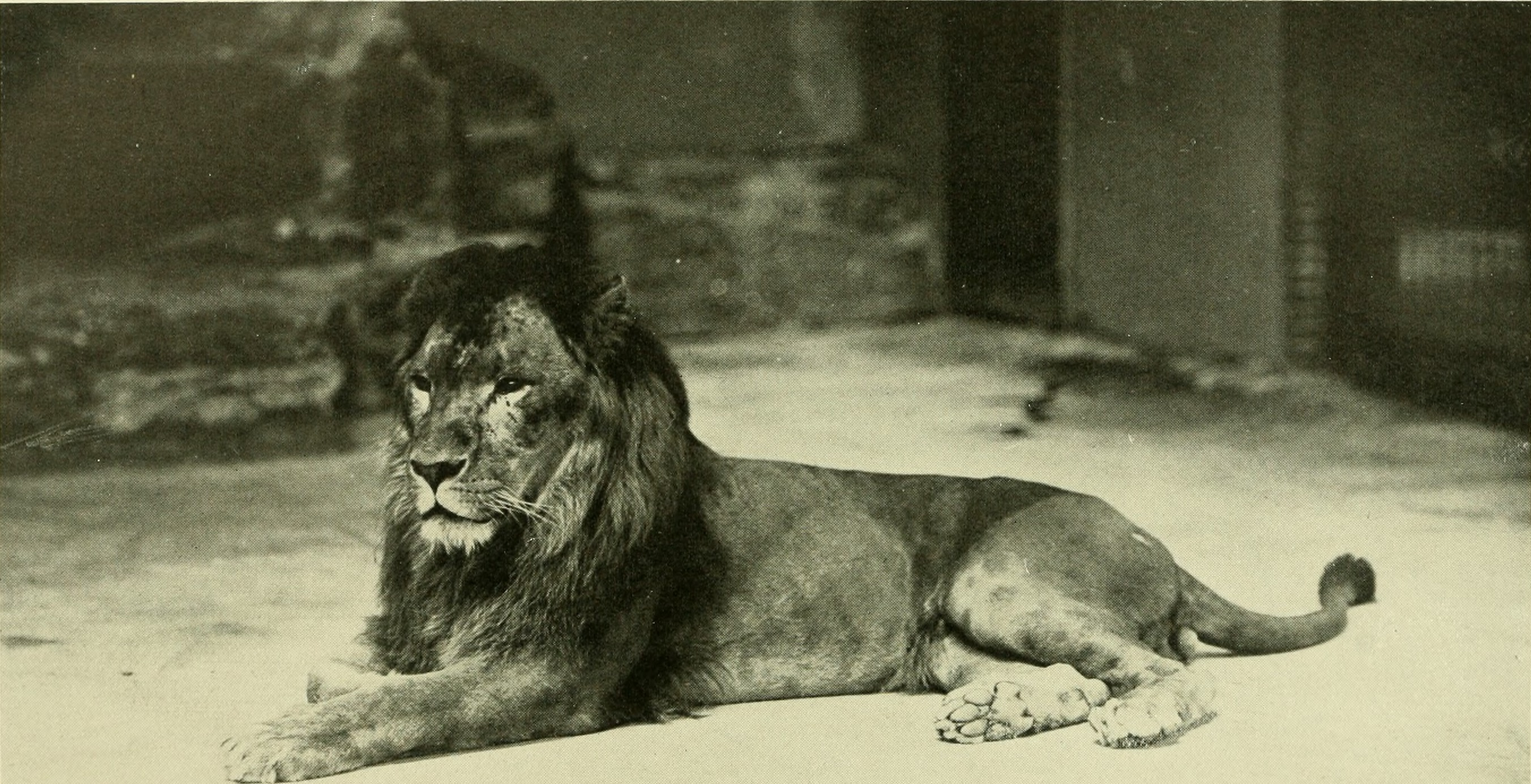 Young male Nubian lion Title: Annual report - New York Zoological Society Year: 1903 (1900s) Authors: New York Zoological Society Subjects: Zoology Publisher: New York, The Society Text Appearing Before Image: ' Text Appearing After Image: '